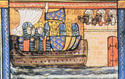 Louis VII of France